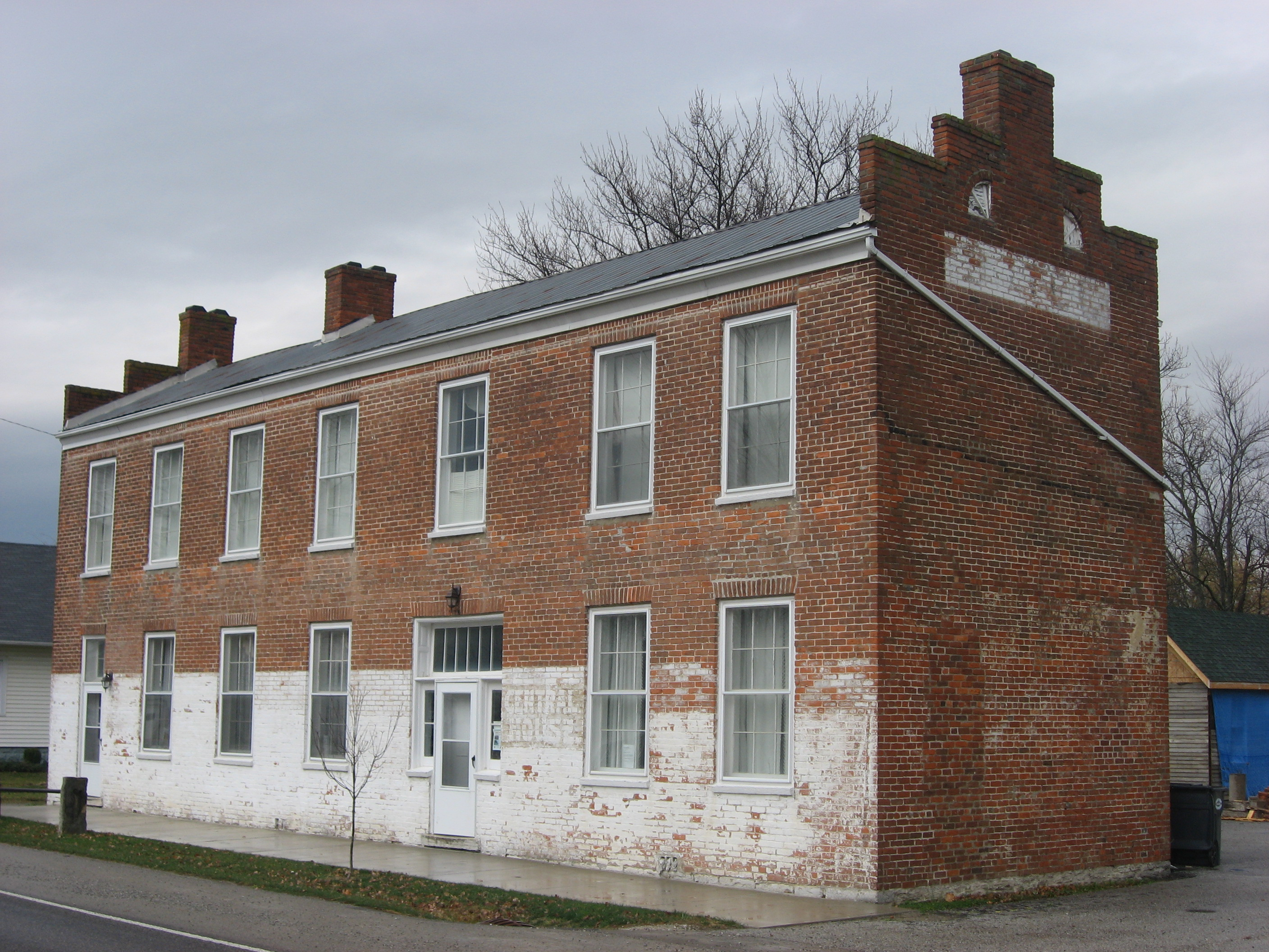 Front and eastern end of the Central House, located along the northern side of State Road 229 on the public square in Napoleon, Indiana, United States. Built in 1856, it is listed on the National Register of Historic Places.